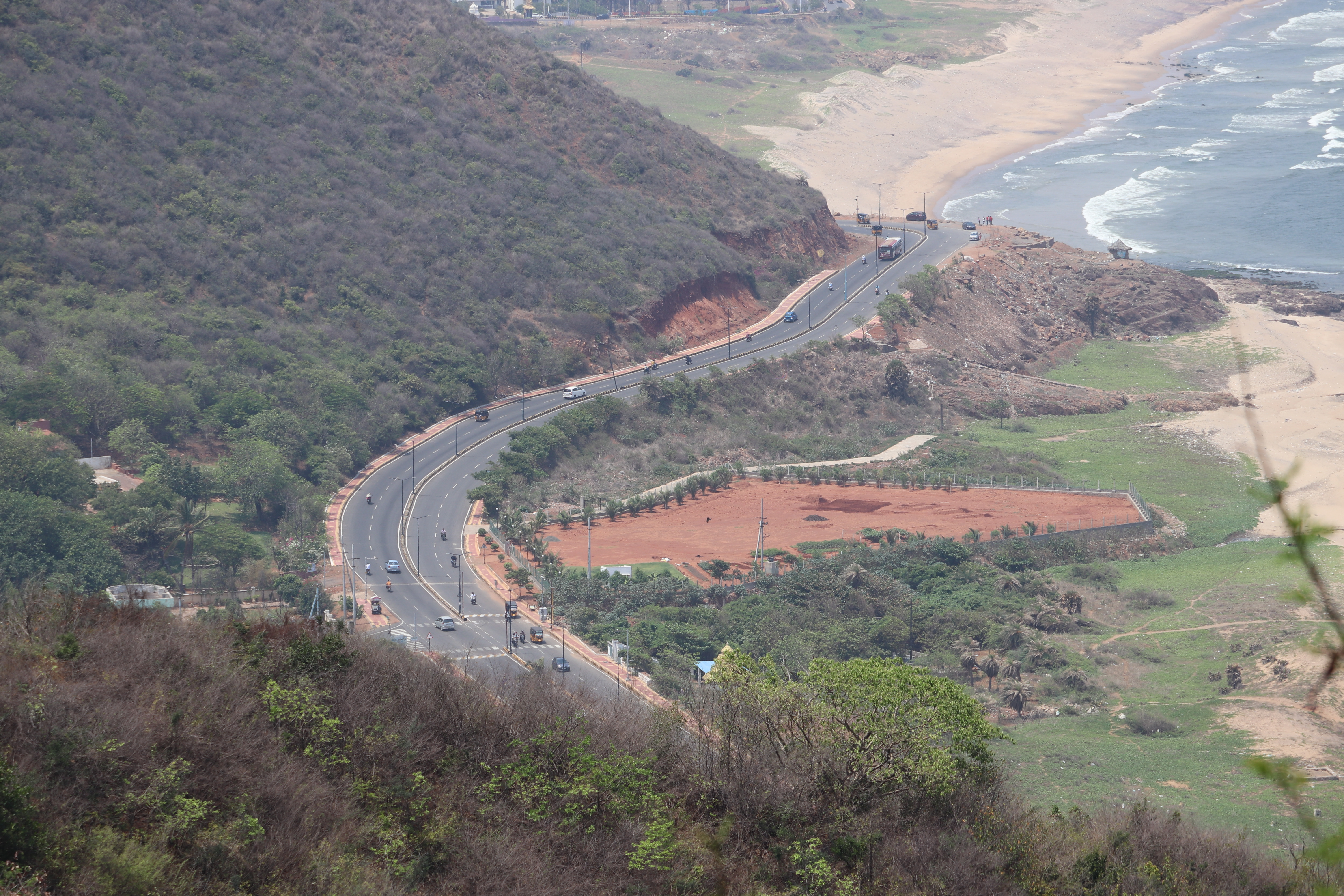 Visakhapatnam Beach road leading towards Bheemili from Kailsagiri